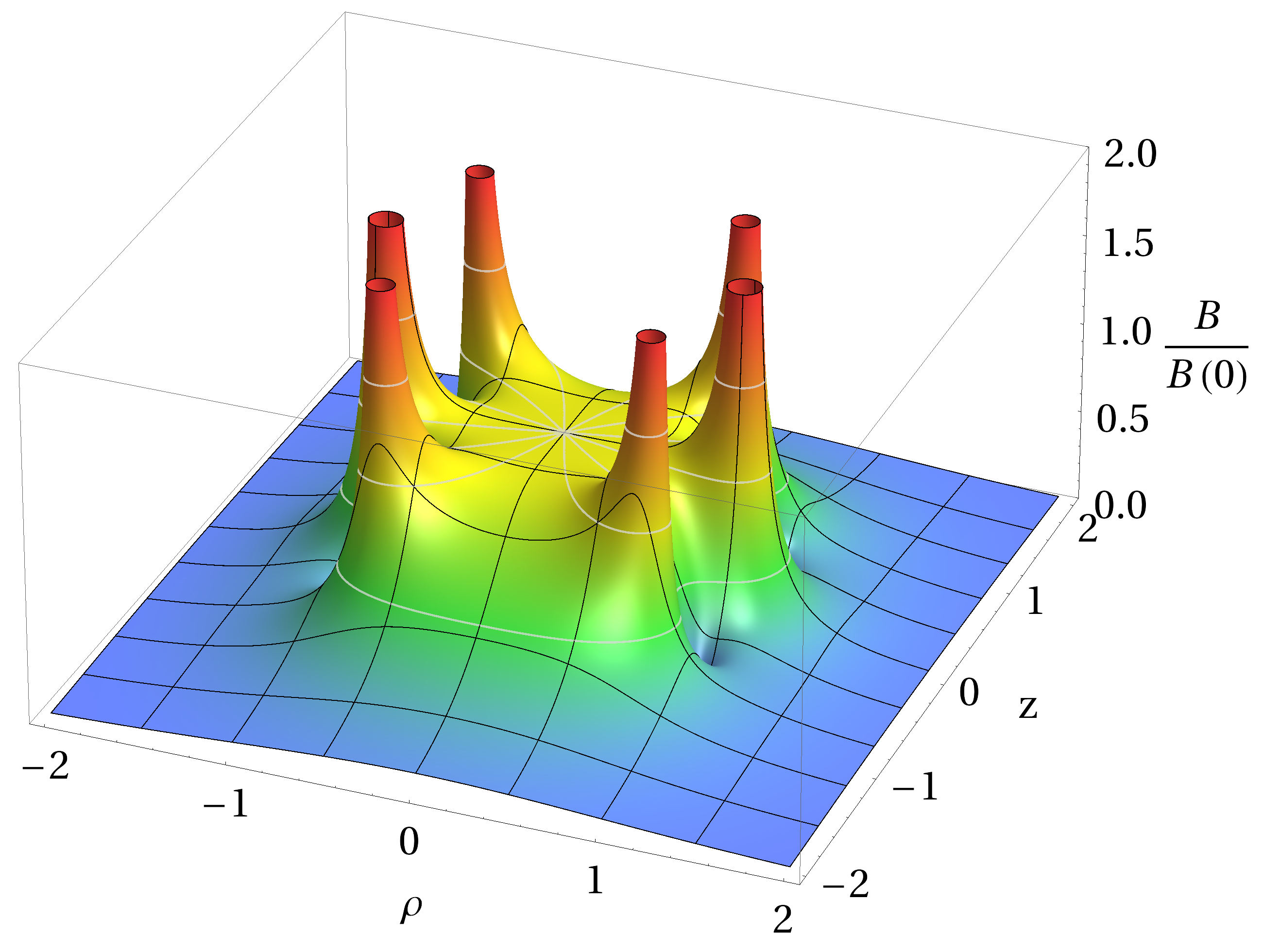 3D plot of the absolute value of the magnetic field B of a Maxwell coil consisting of three thin circular coils arranged to create a maximally uniform field in the center. The inner central coil has radius R and current I. The two outer coils have radii 4 / 7 R {\displaystyle {\sqrt {4/7 R} , axial distance 3 / 7 R {\displaystyle {\sqrt {3/7 R} and carry the current 49/64I. The central coil radius R is set to 1. The B-field is given in units of the central field 15 / 16 I μ 0 / R {\displaystyle 15/16I\mu _{0}/R} .